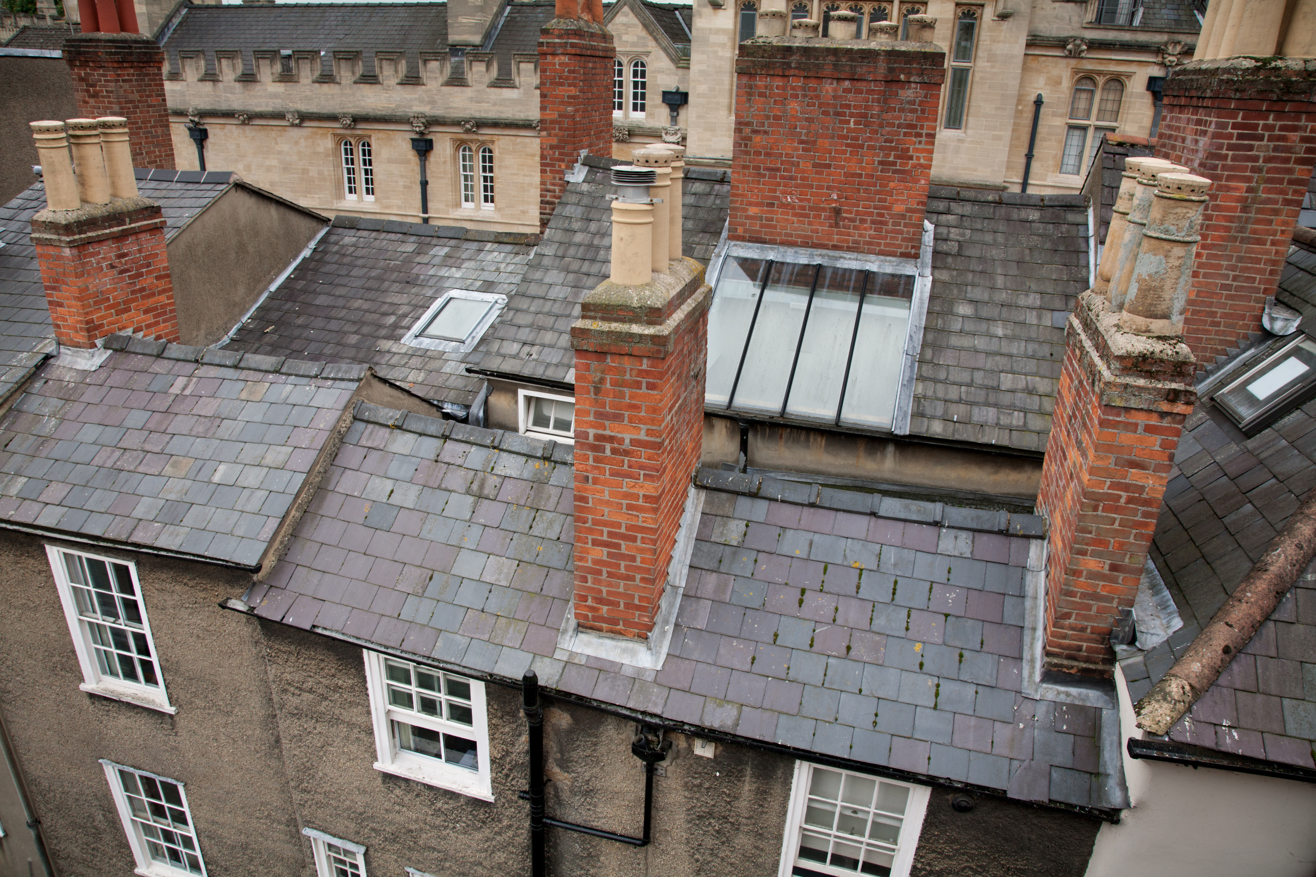 Roofscape seen from Jesus College, Oxford, England